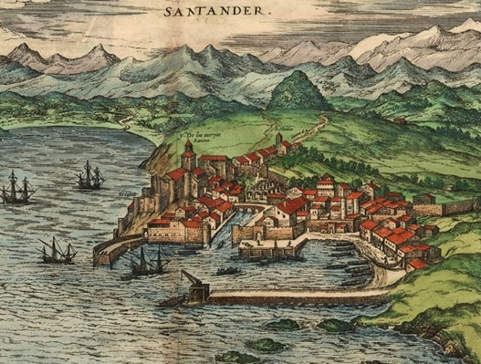 A 16th century Joris Hoefnagel' s view of Santander (Cantabria)